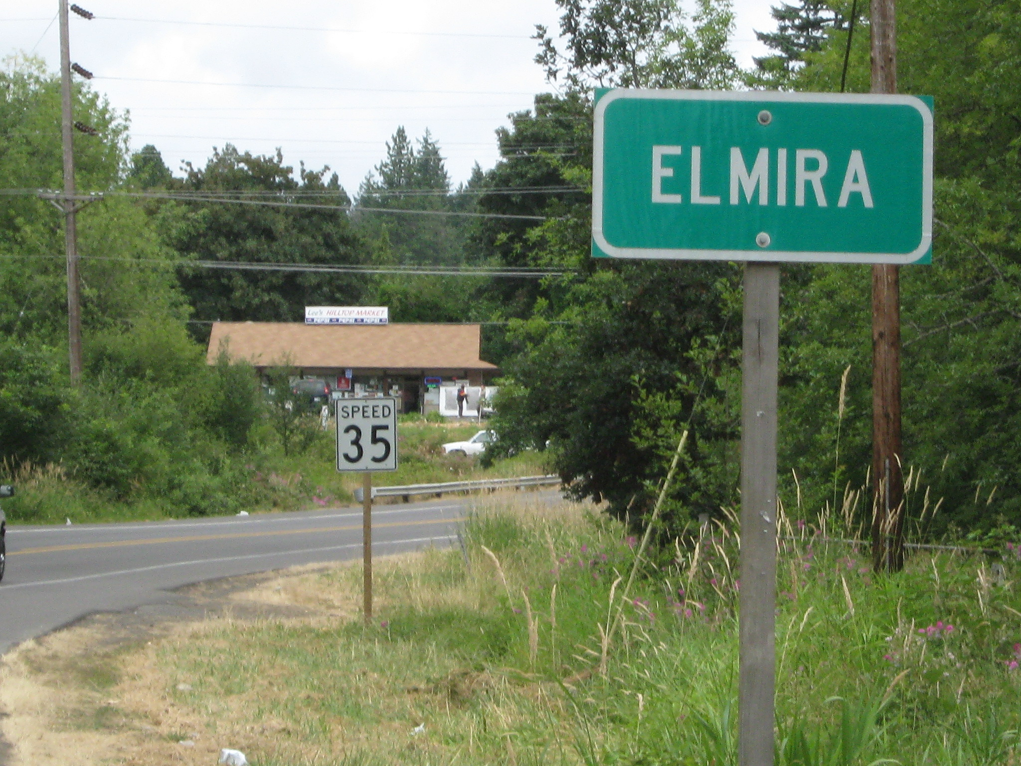 Approaching Elmira, Oregon, USA on Territoral Road from the south. Hilltop Market is in the distance. Fern Ridge Wildlife Area to the right.